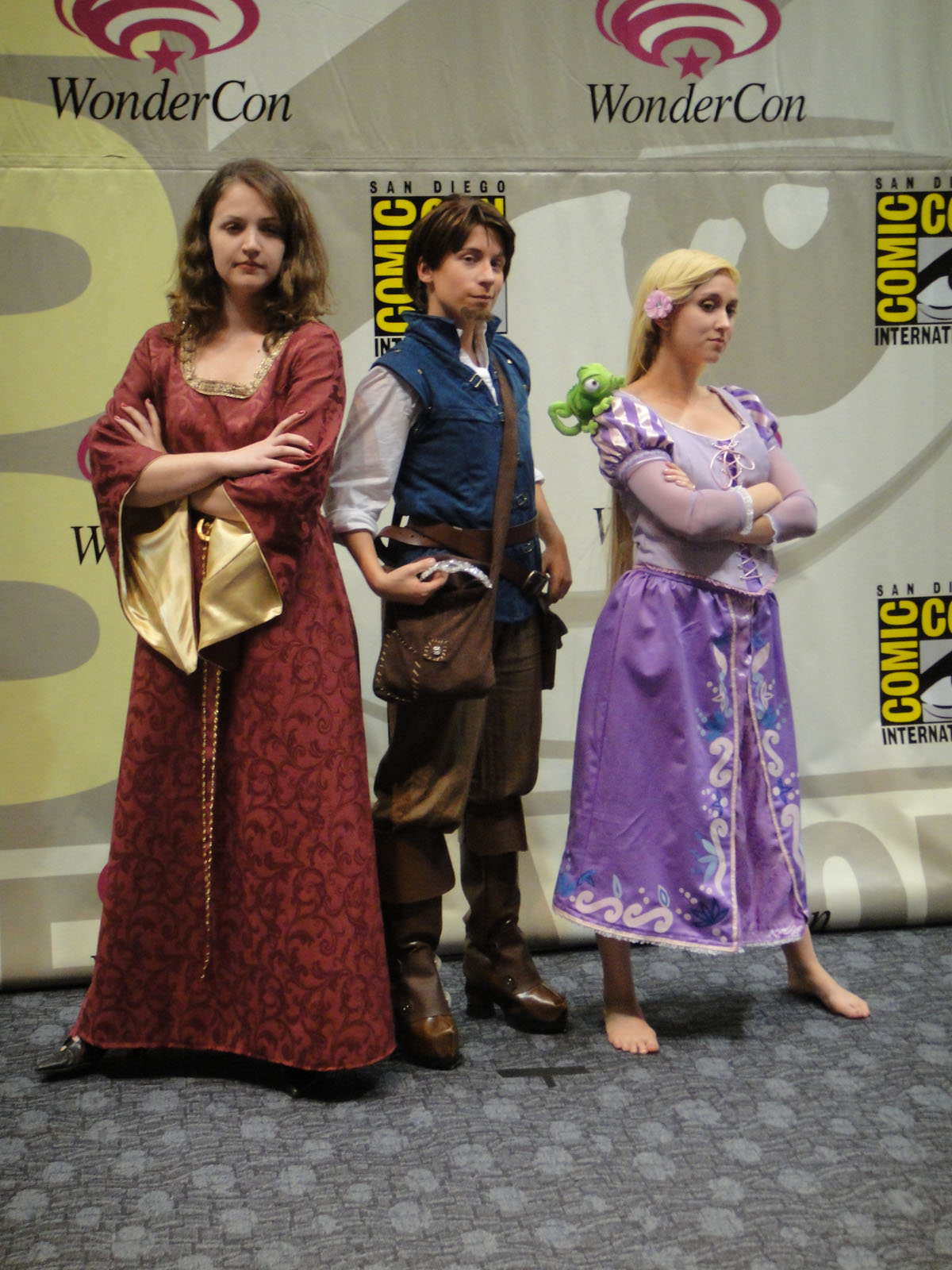 WonderCon 2011 Masquerade - Mother Gothel, Flynn Rider, and Rapunzel from Tangled